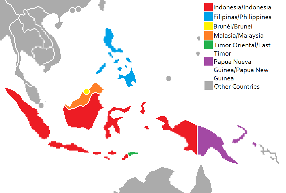 Insulindia map